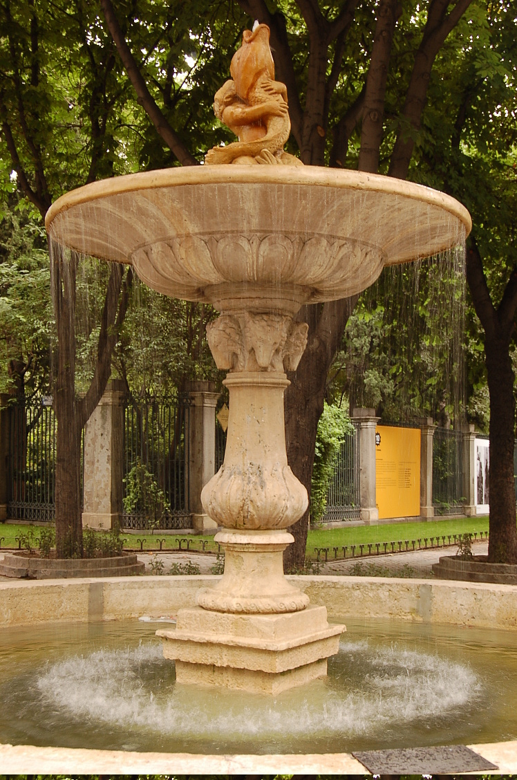 One of the four fountains at the Paseo del Prado (boulevard) in Madrid (Spain), designed by Ventura Rodríguez (1717–1785) in 1781.